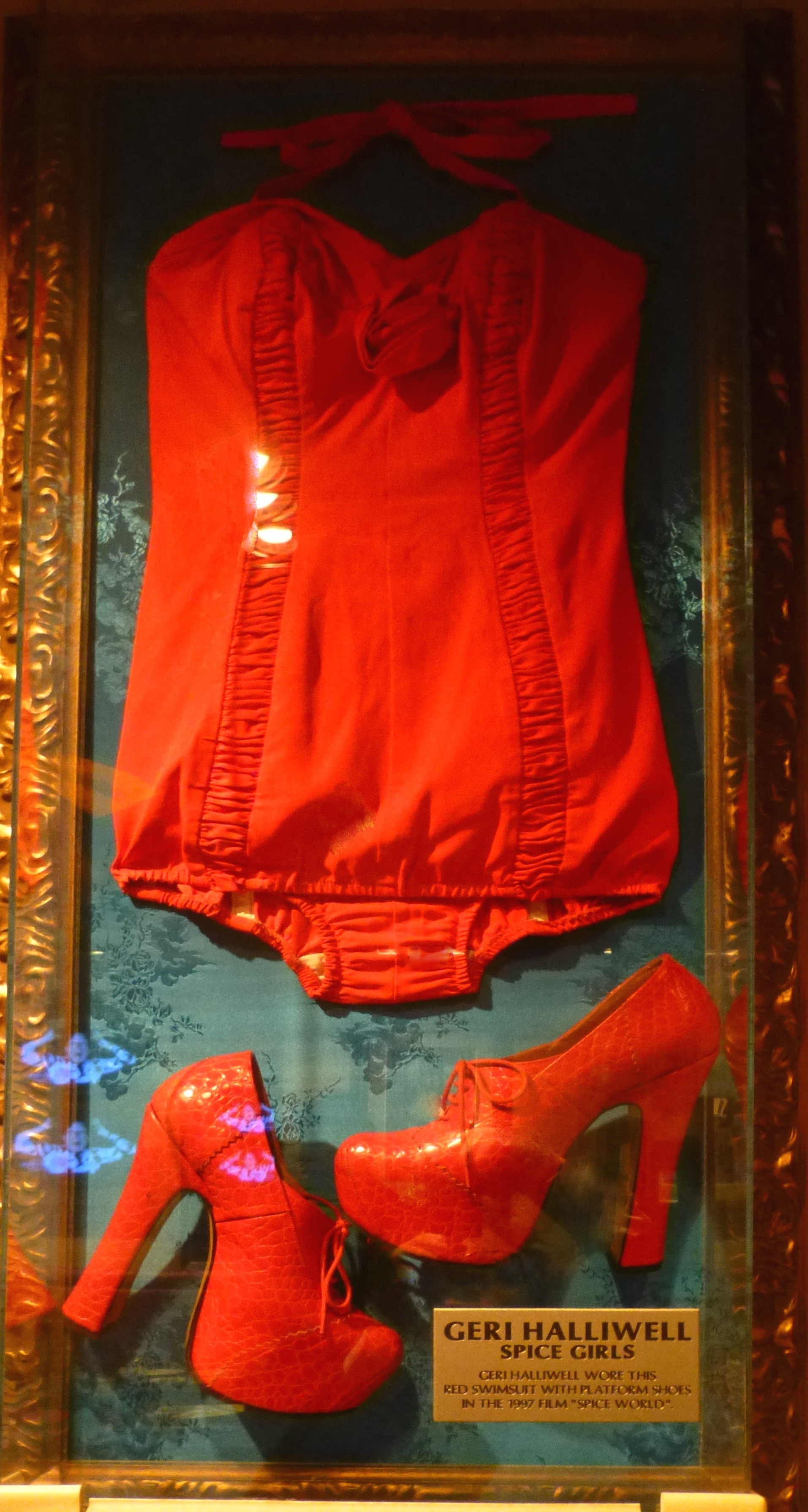 From Hard Rock Cafe, Ueno Japan. Description reads: Geri Halliwell wore this red swimsuit with platform shoes in the 1997 film "Spice World".